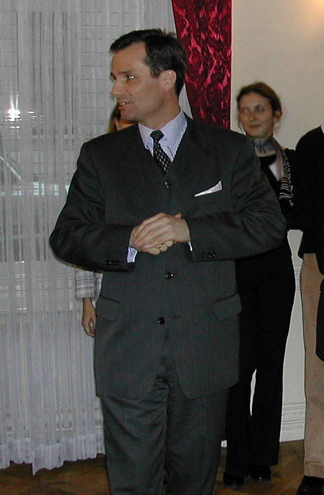 Stanisław Jerzy Komorowski (1953-2010). Polish diplomat and physicist. Photo taken at the Embassy of Poland in London.